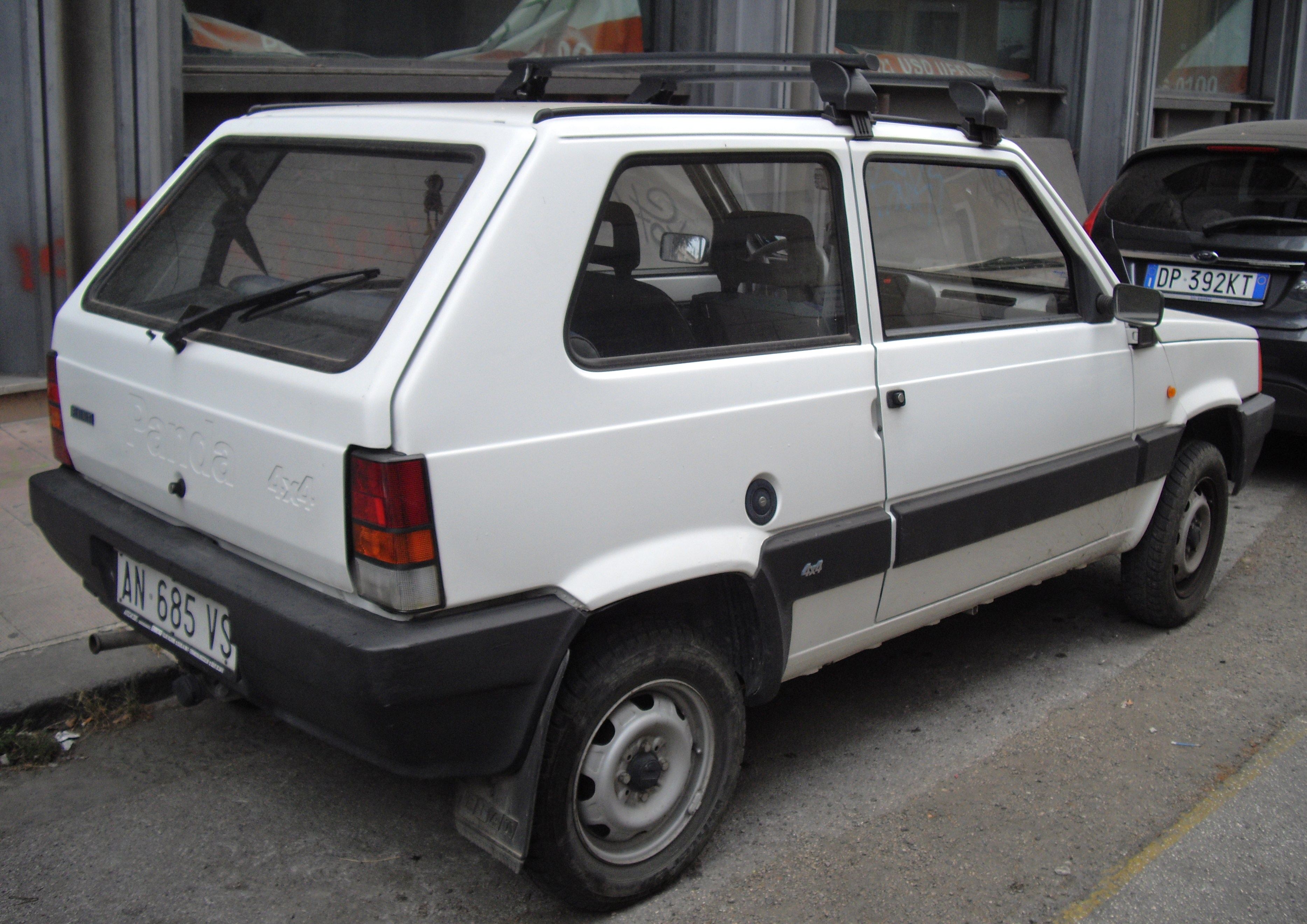 Fiat Panda 4x4 Trekking front